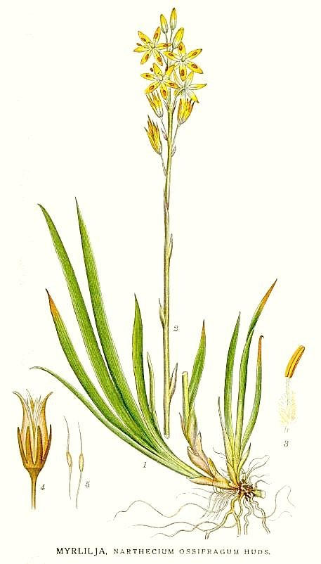 Narthecium ossifragum (L.) Huds. Original Description Myrlilja, Narthecium ossifragum Huds.